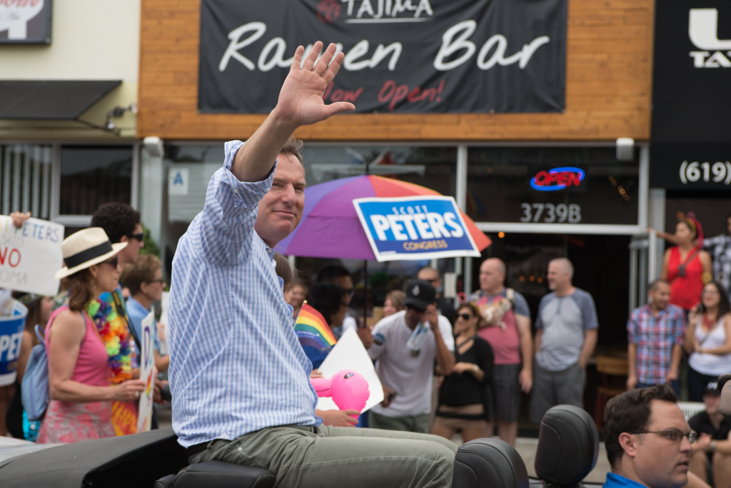 Susan Davis marching in the 2014 San Diego LGBT Pride Parade